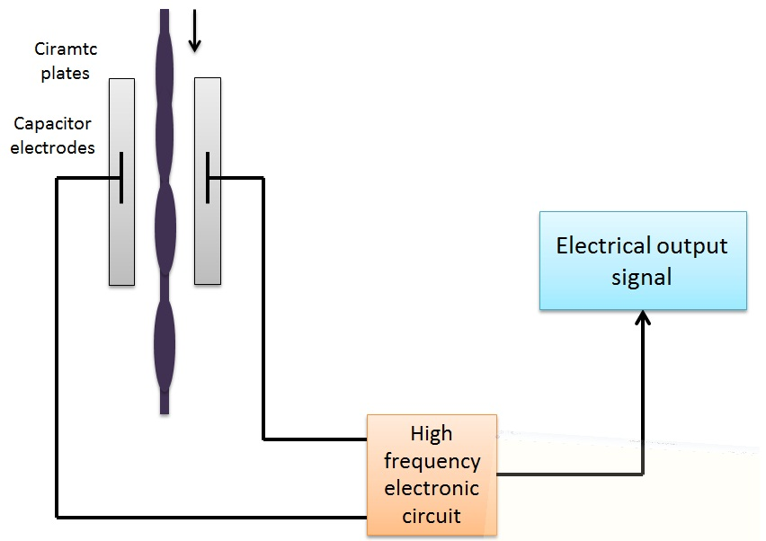 principle of measurement evennes for yarn